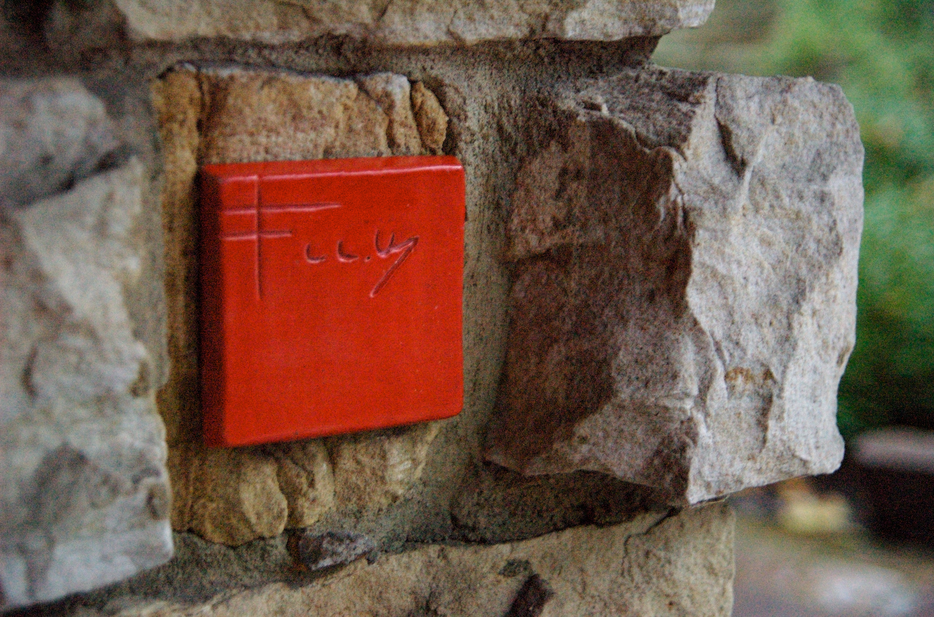 Frank Lloyd Wright signature at Kentuck Knob.